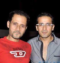 The Bollywood music composer duo Meet Bros at the screening of the film Zanjeer. Other information The file is provided by Bollywood Hungama under the license of Creative Commons Attribution (cc-by-3.0).